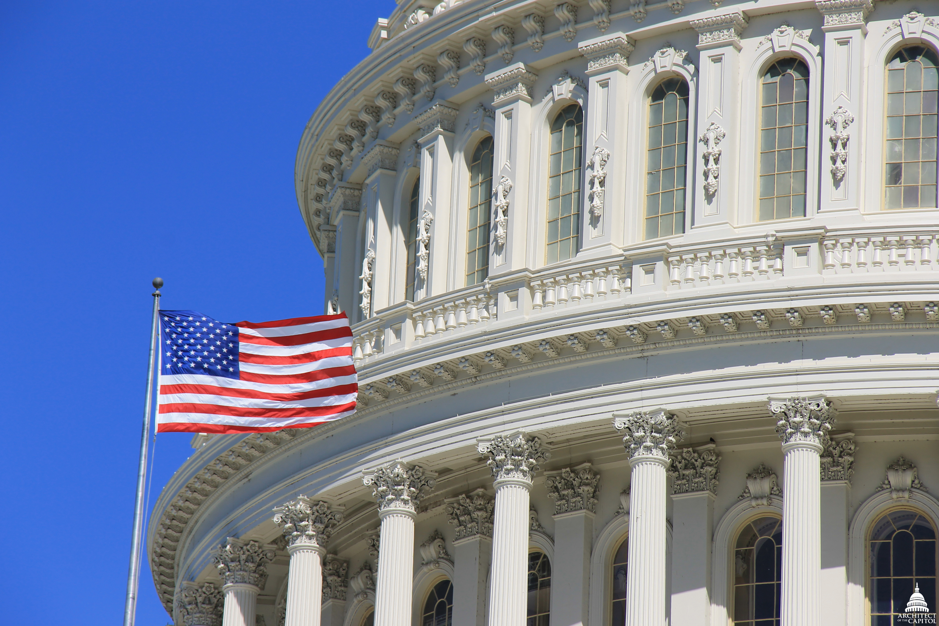 This official Architect of the Capitol photograph is being made available for educational, scholarly, news or personal purposes (not advertising or any other commercial use). When any of these images is used the photographic credit line should read “Architect of the Capitol.” These images may not be used in any way that would imply endorsement by the Architect of the Capitol or the United States Congress of a product, service or point of view. For more information visit